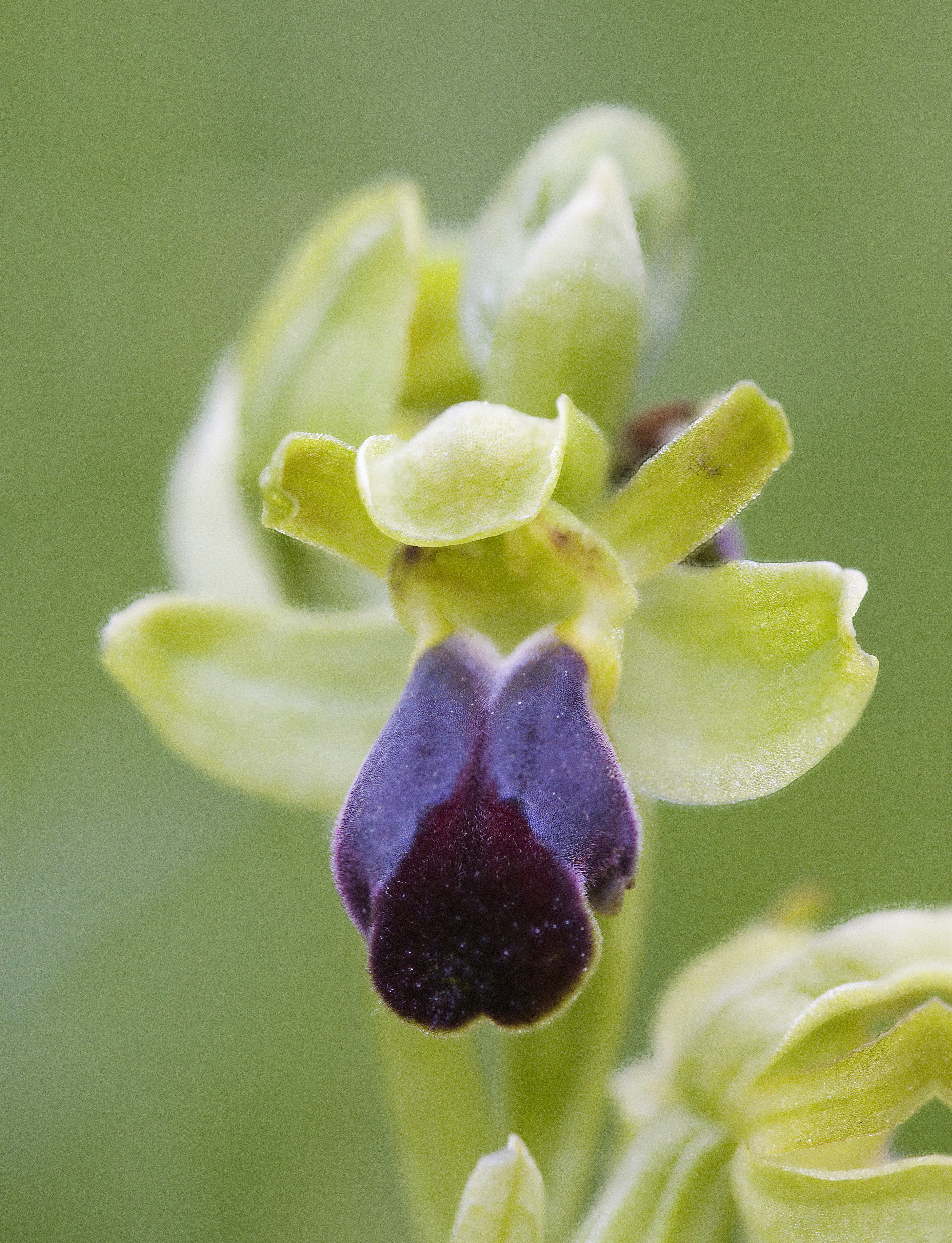 Ophrys sulcata